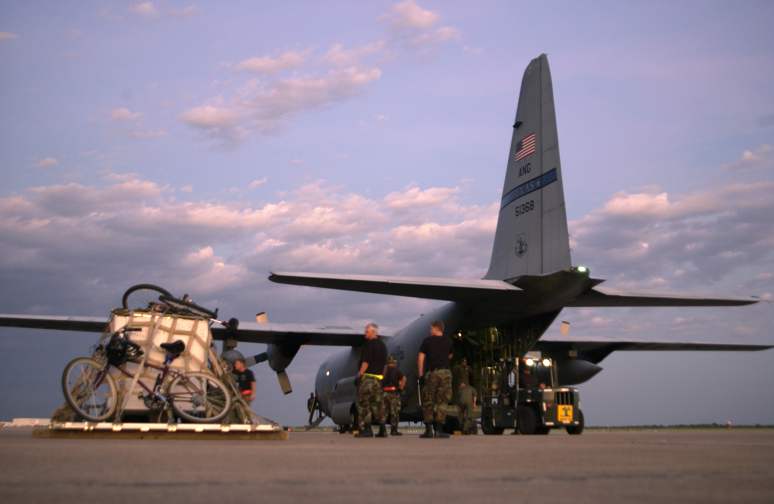 A C-130 air craft from the 136th Airlift Wing, Joint Reserve Base, Fort Worth, TX off loads equipment while clouds, remnants of hurricane Rita, drift as the sunset relief operations at Ellington Field, in Houston, TX.